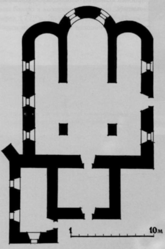 Plan Church of the Transfiguration in s.Spas Ritnerom made ​​in 1815